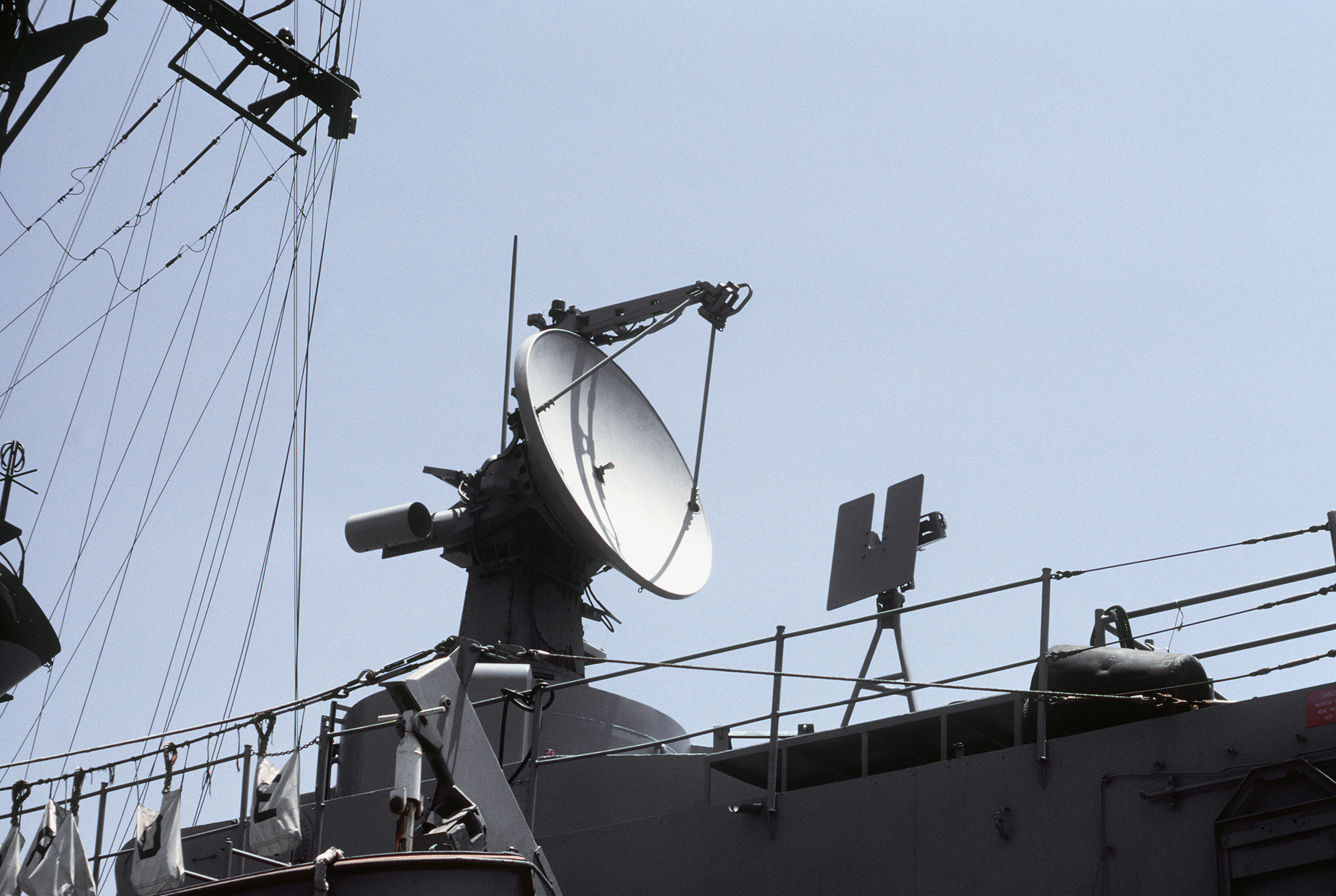 A view of a gun mount, without gun, and an AN/SPG-51C missile control radar aboard the guided missile frigate USS BROOKE (FFG-1). Location: SAN DIEGO, CALIFORNIA (CA) UNITED STATES OF AMERICA (USA)